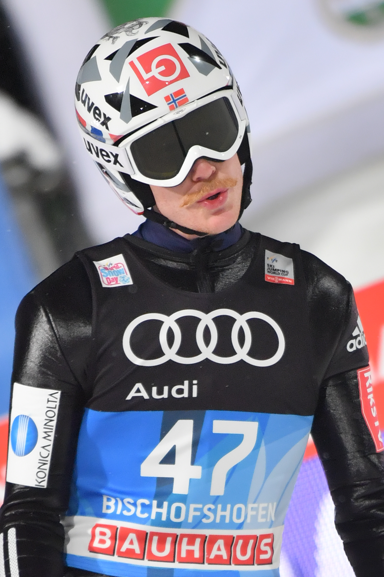 FIS Ski Jumping World Cup, Four Hills Tournament, Bischofshofen 2017.